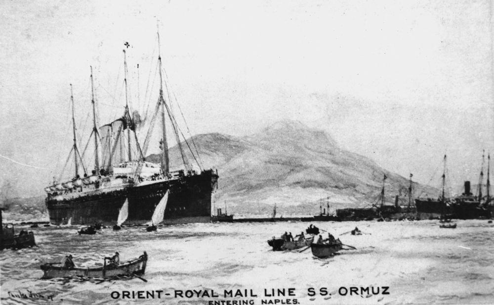 Orient Steam Navigation Co 6,031 GRT liner Ormuz, built in 1886. Photograph of a painting titled Entering Naples. (From description supplied with photograph.)